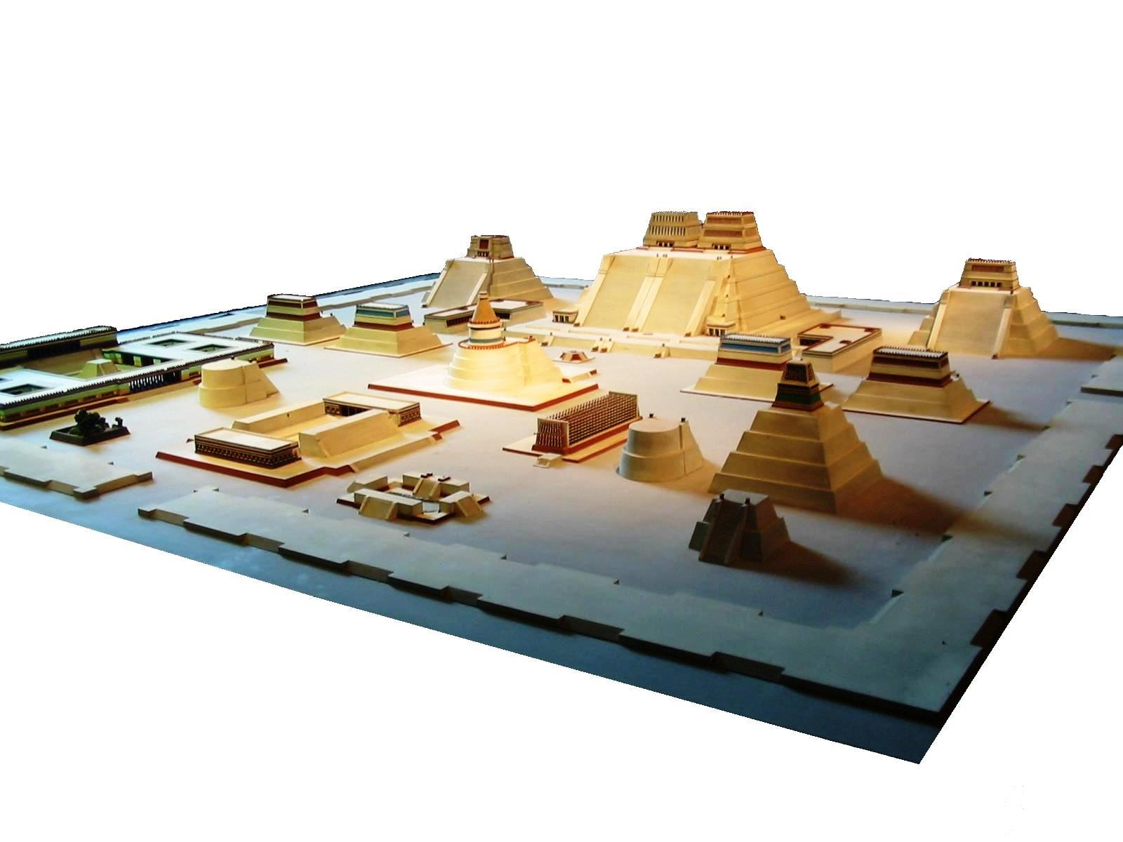 Model of the Aztec City of Tenochtitlan at the National Museum of Anthropology in Mexico City